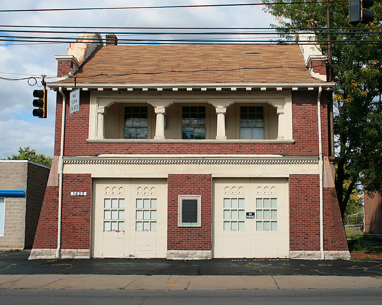 Dayton Fire Station 14 Photo by Greg Hume